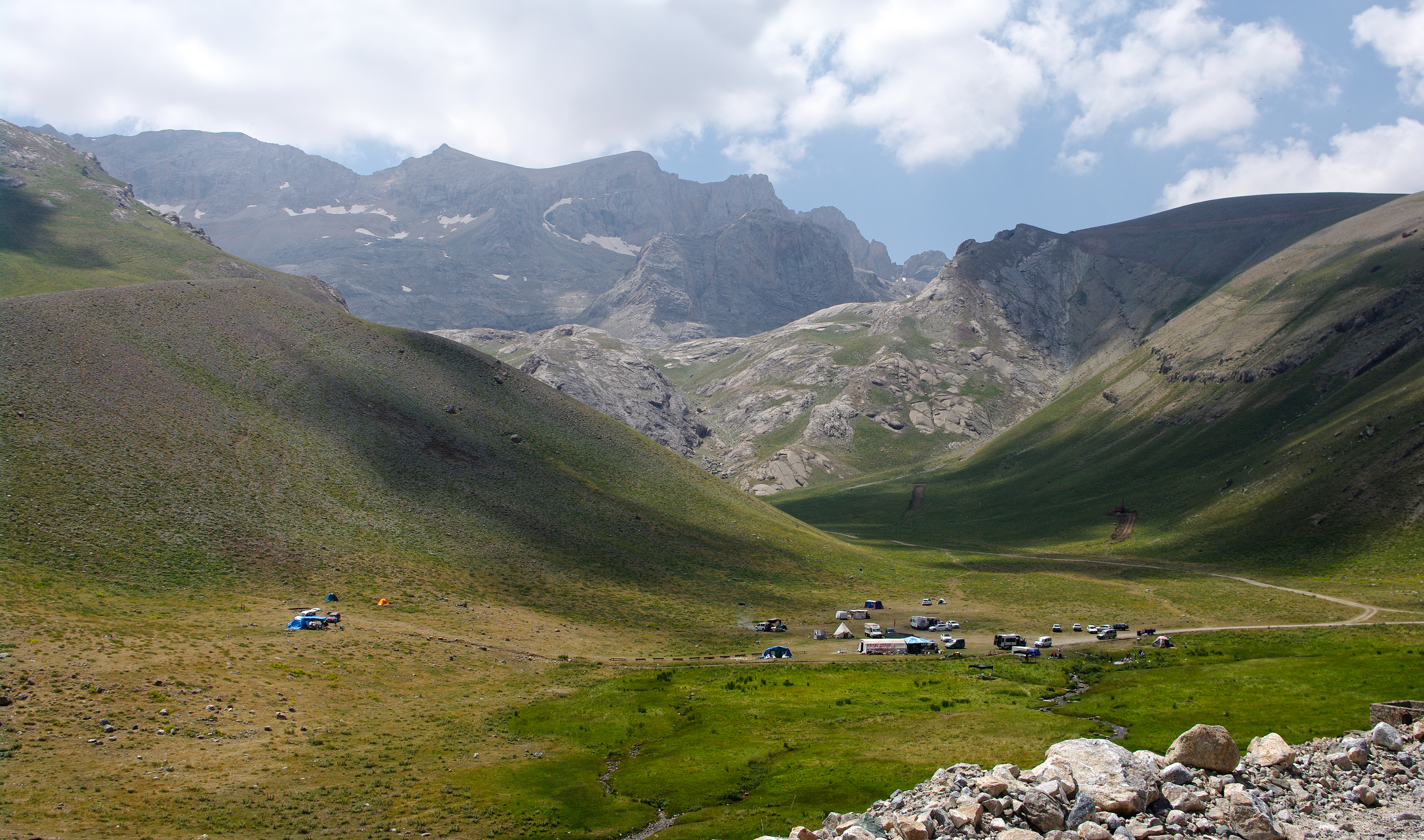 A view of Plateau Meydan on Bolkar Mountains.